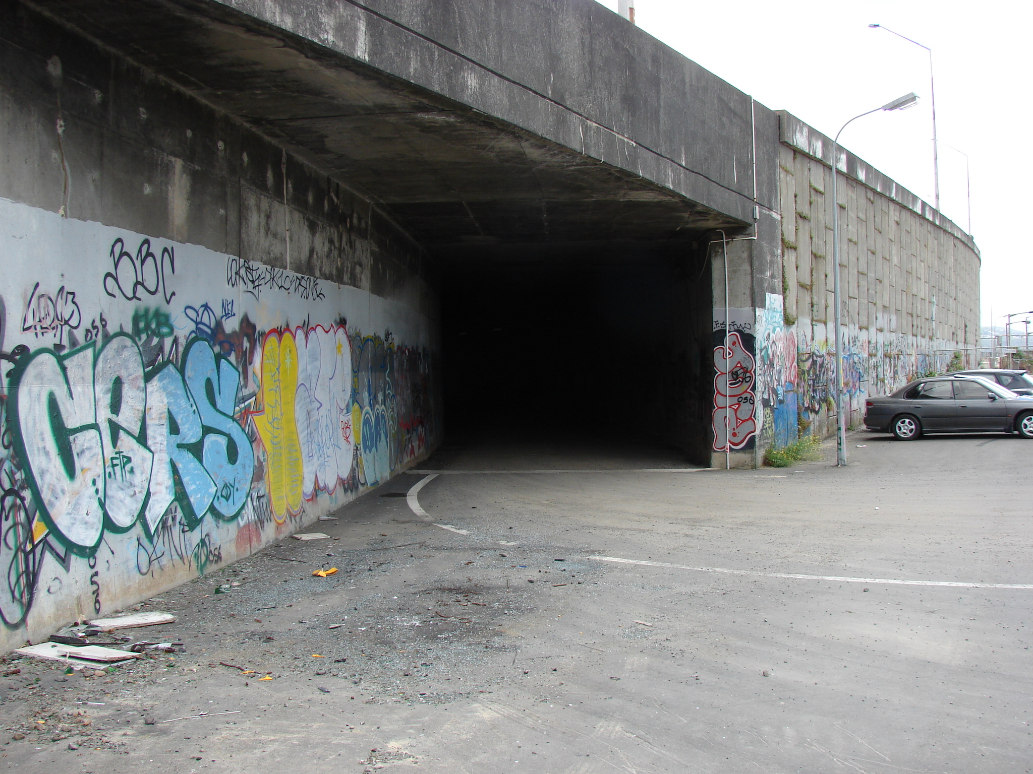 Entrance to the tunnel formerly used by the Ngauranga Industrial Siding (Wellington Meat Export Company) from the Ngauranga railway station yard. Photographed by Matthew25187 on 2007-12-24.